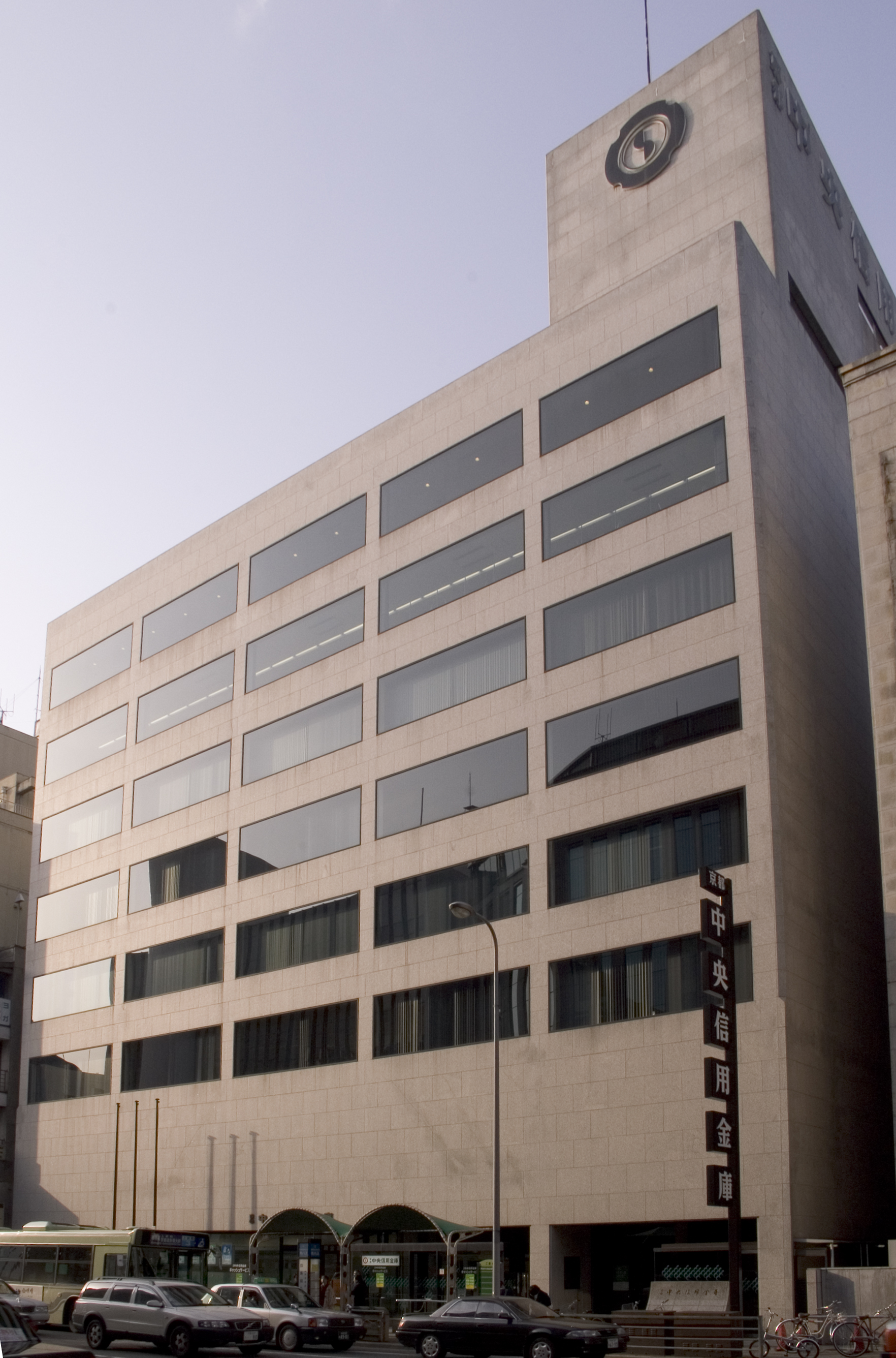 Photograph of the Kyoto Chuo Shinkin Bank's Central Branch (headquarters) in Shimogyo-ku, Kyoto, Kyoto Prefecture, Japan.